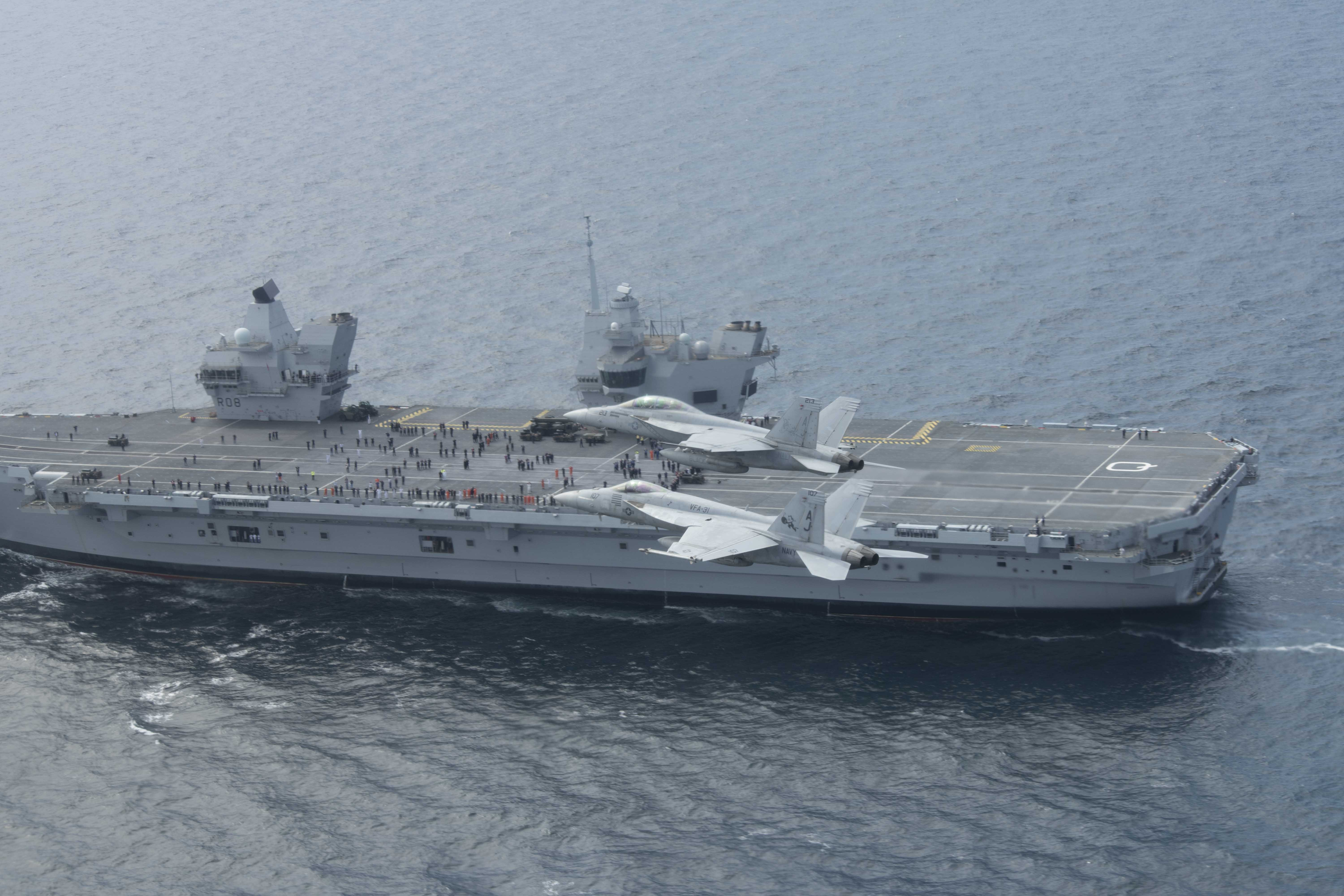 A U.S. Navy Boeing F/A-18E Super Hornet from Strike Fighter Squadron 31 (VFA-31) "Tomcatters", bottom, and a F/A-18F of VFA-213 "Black Lions" fly in formation above the Royal Navy aircraft carrier HMS Queen Elizabeth (R08) during exercise "Saxon Warrior 2017".